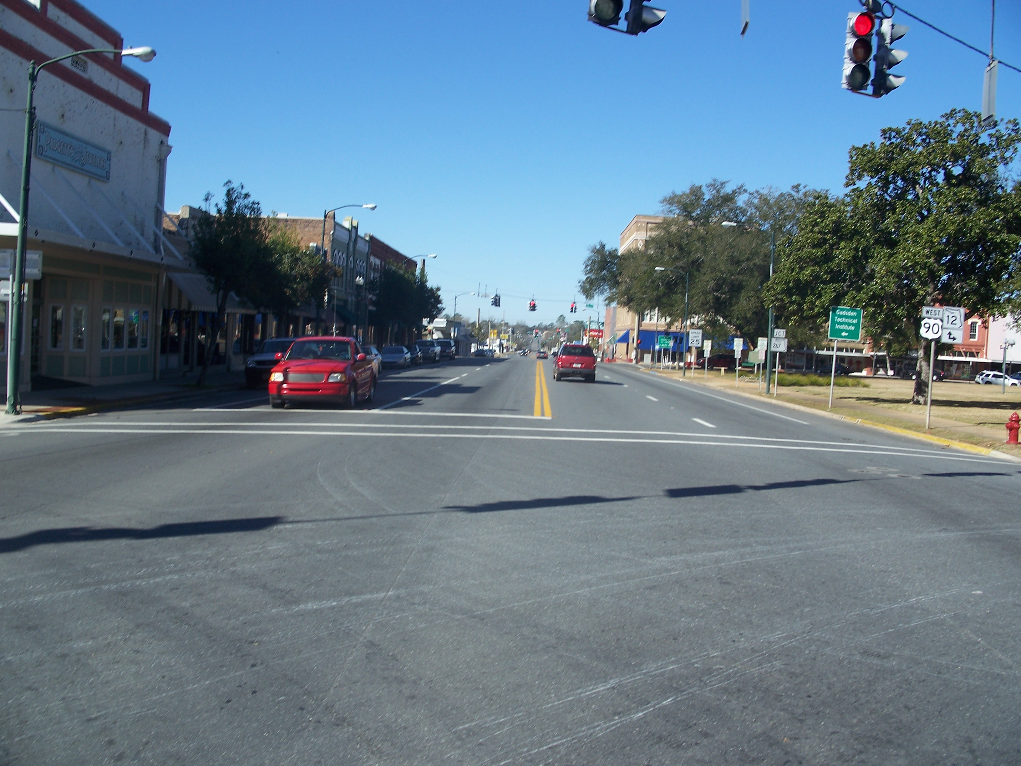 Quincy, Florida: Quincy Historic District: US 90, looking west